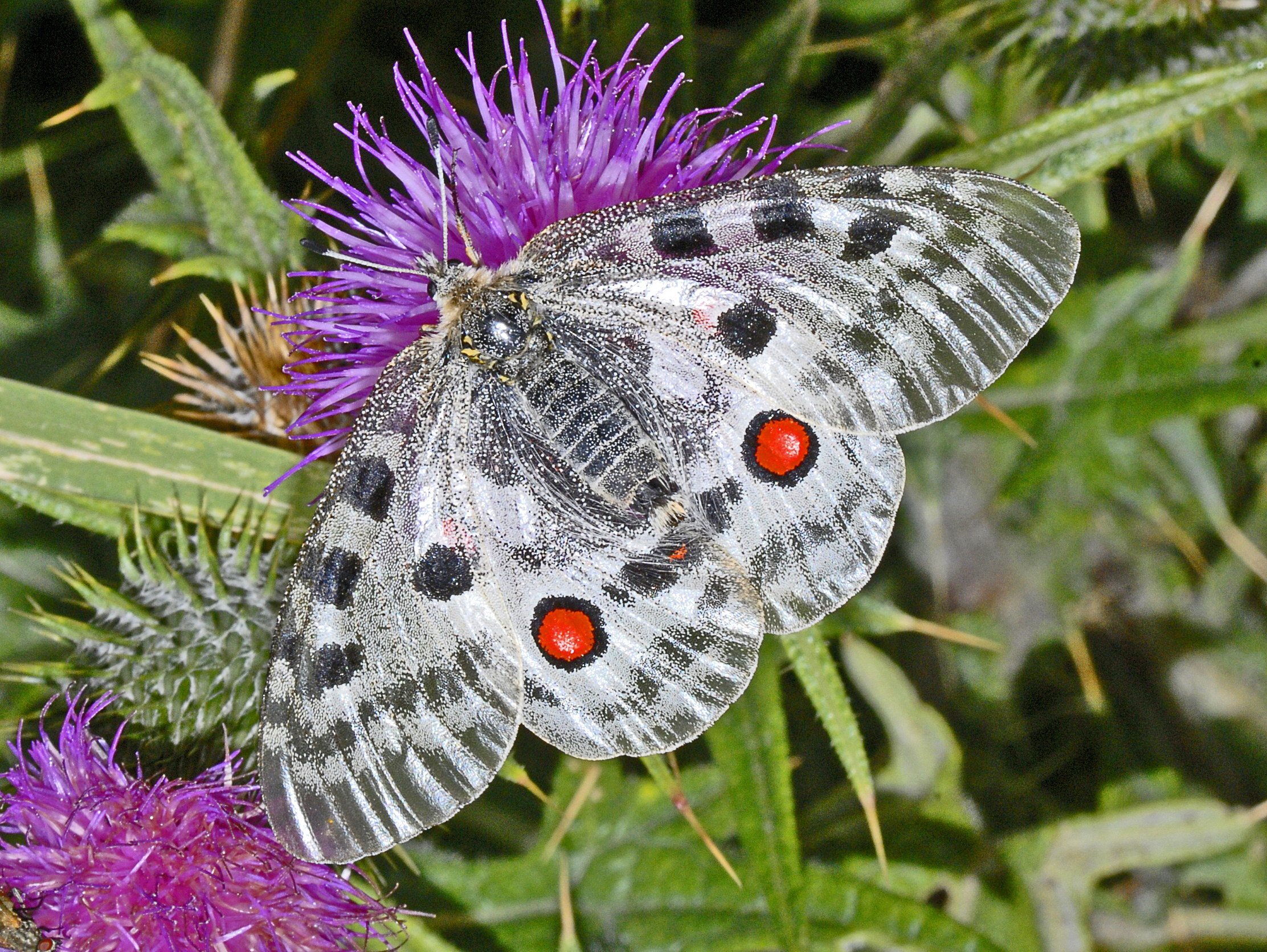 Parnassius apollo. Val di Rhemes, Aosta, Italy